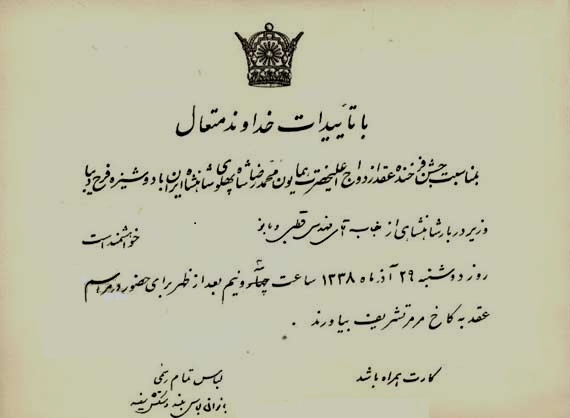 Farah and Shah wedding invitation letter